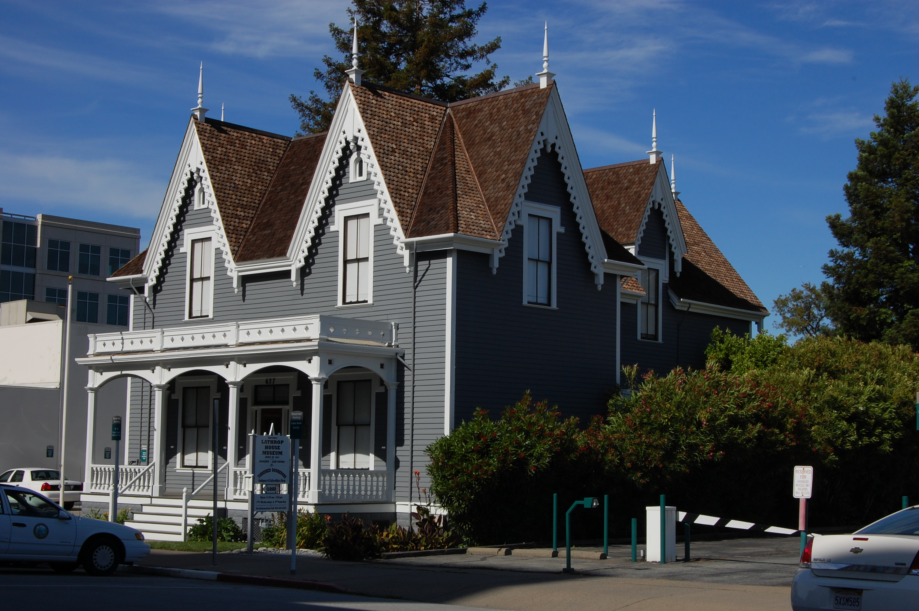 Benjamin Lathrop house. Steamboat Gothic style. Build in 1863. 627 Hamilton Street, Redwood City, California, USA